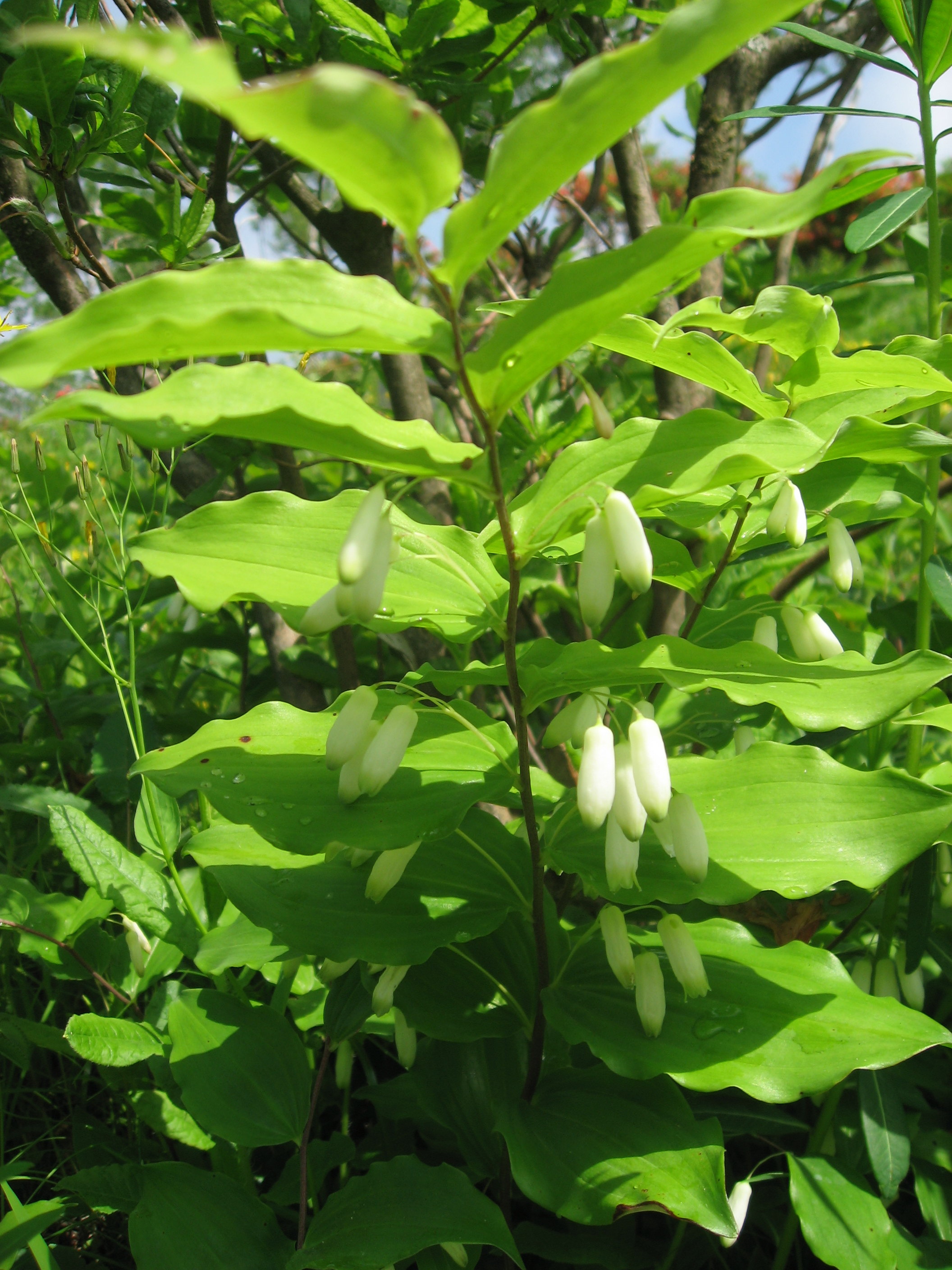 From Japan w.p. Polygonatum lasianthum